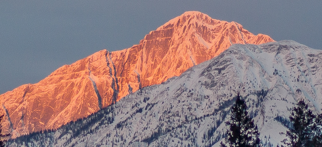 Sunset on Mount Colin, Jasper Park, Canada